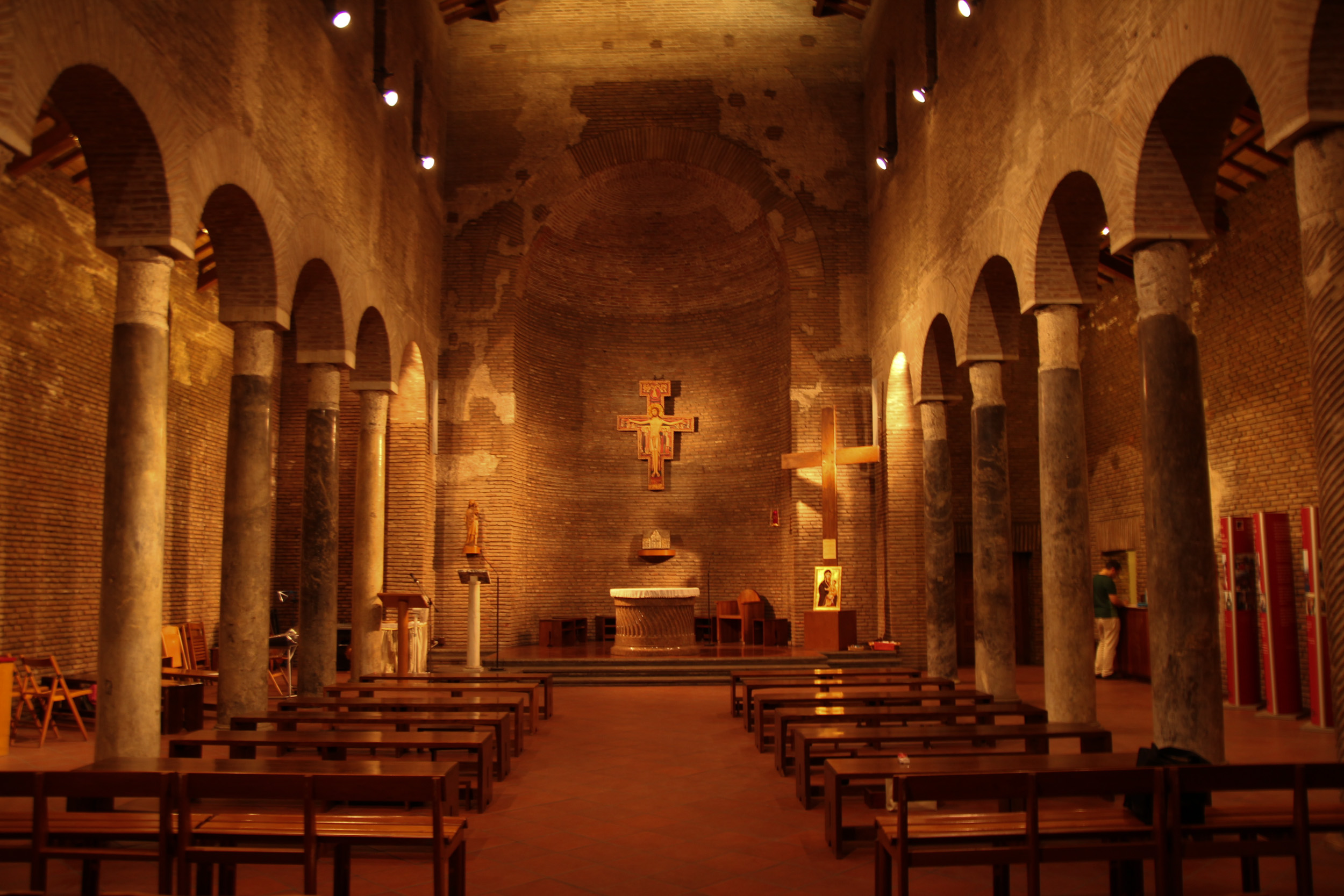 Aisle and apsis in San Lorenzo in Piscibus